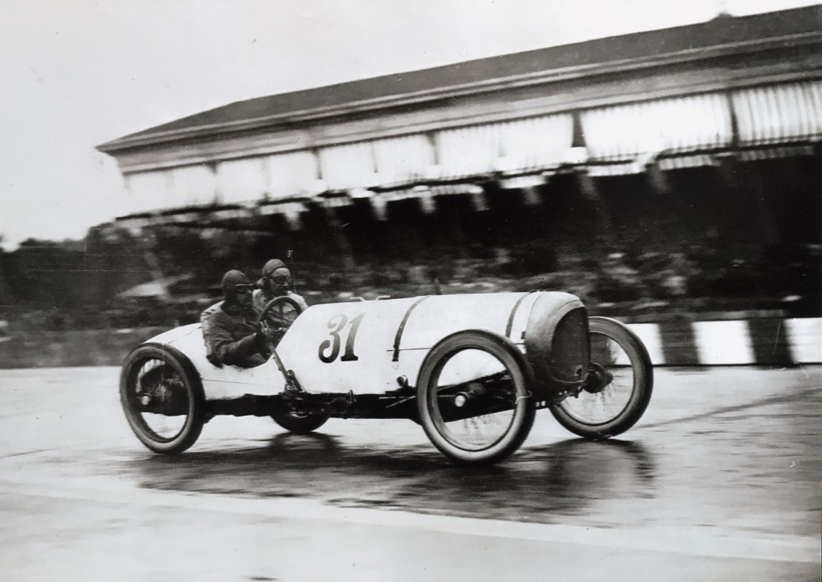 The "Heim & Cie Badische Automobilfabrik Mannheim" started with 2 Heim Grand Prix cars at the opening race in Monza on 10 September 1922. Drivers were Franz Heim and Reinhold Stahl (picture)